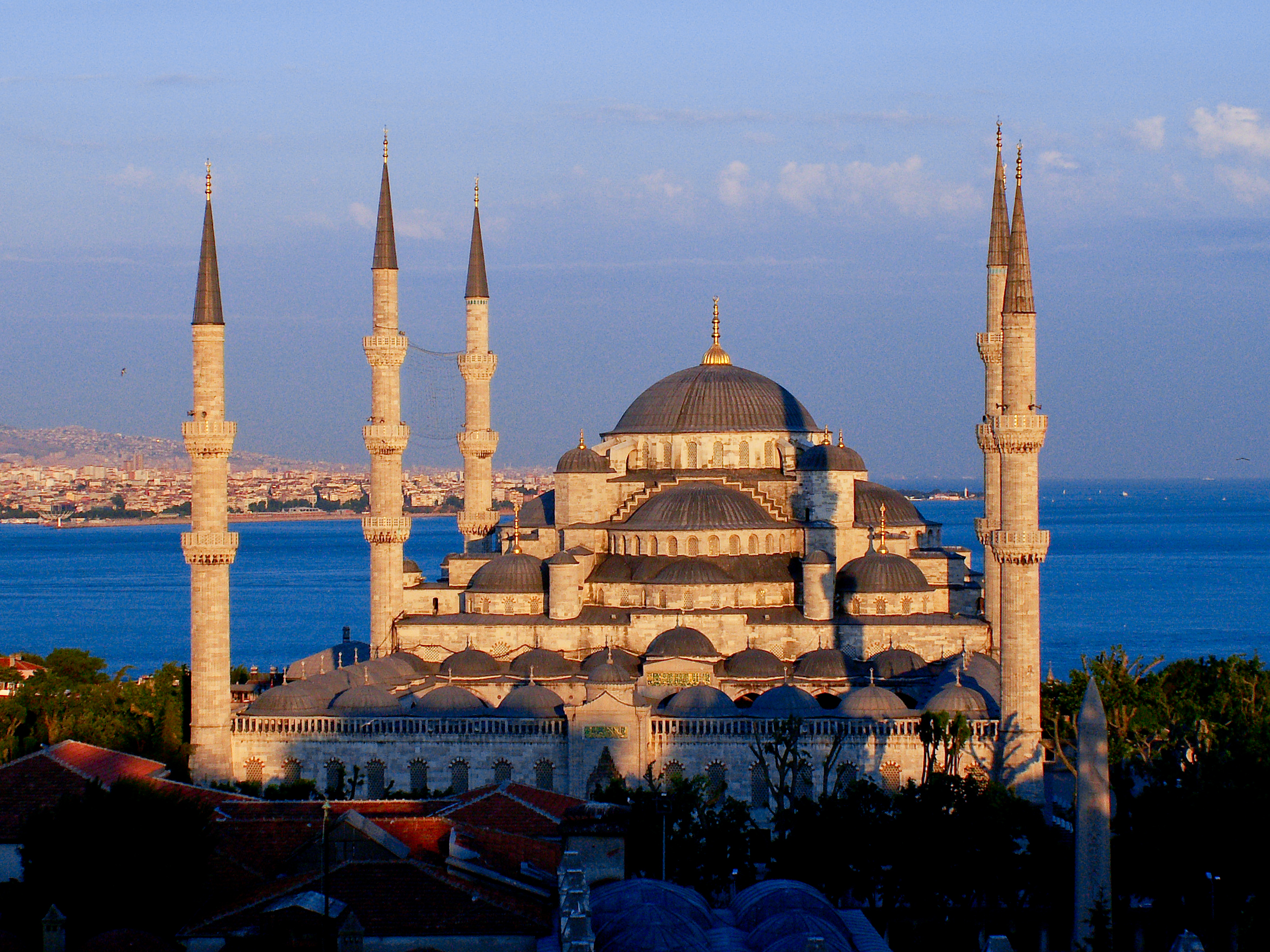 The Blue Mosque at sunset.